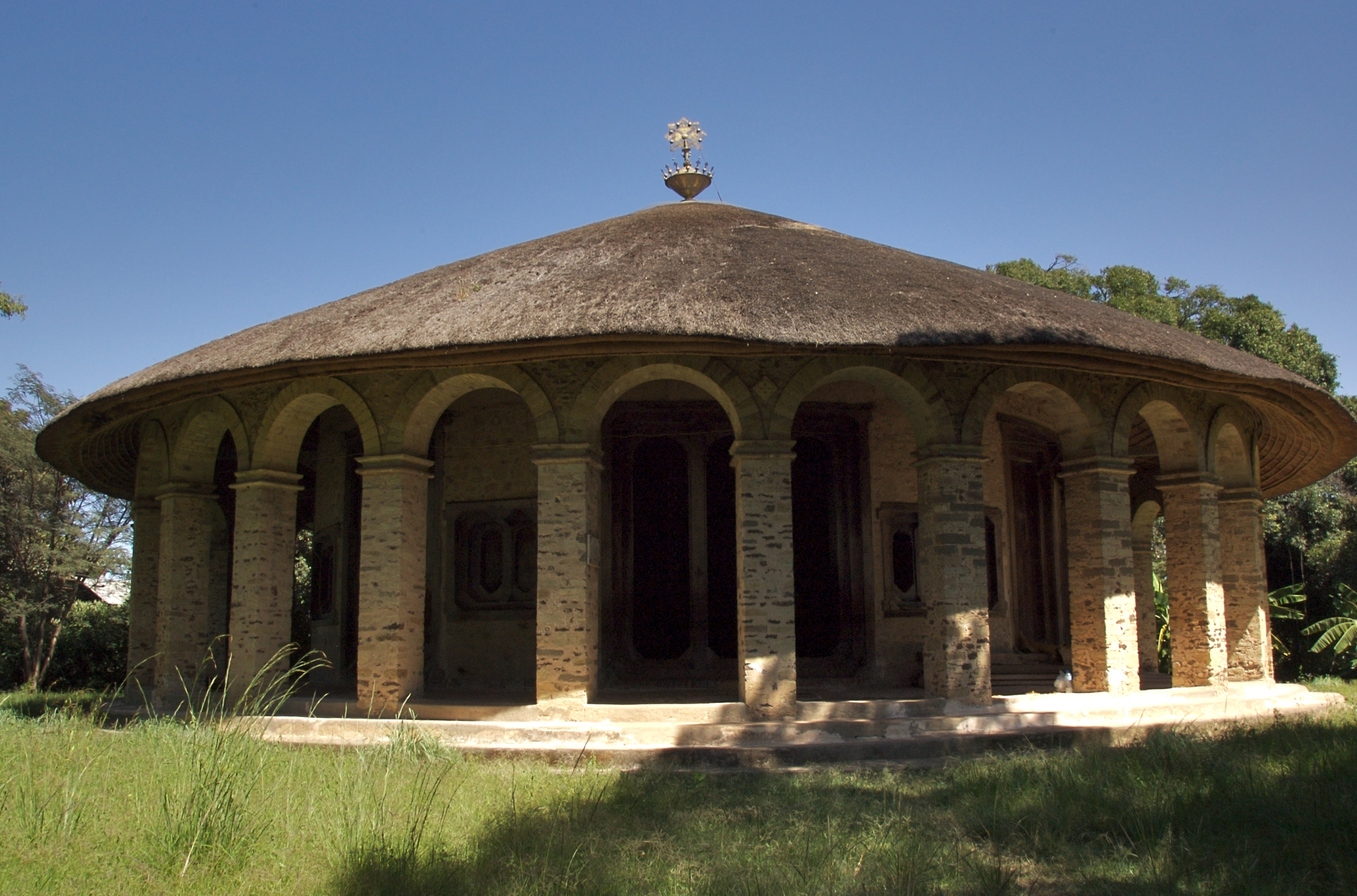 The Ethiopian Empress Mentewab built Narga Selassie in the late 18th century on Dek Island, the largest of the islands in Lake Tana, Ethiopia.